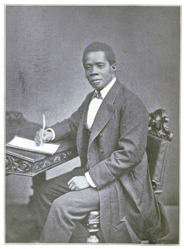 Portrait of E.W. Blyden